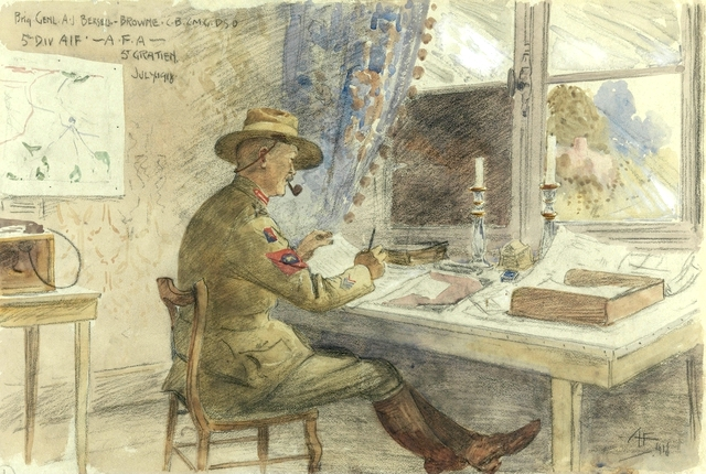 Caption: St Gratien; Australian Field Artillery, 5th Australian Division; Brigadier General Alfred Joseph Bessell-Browne, CB, CMG, DSO, VD, Commanding 5 Division Artillery; Western Front